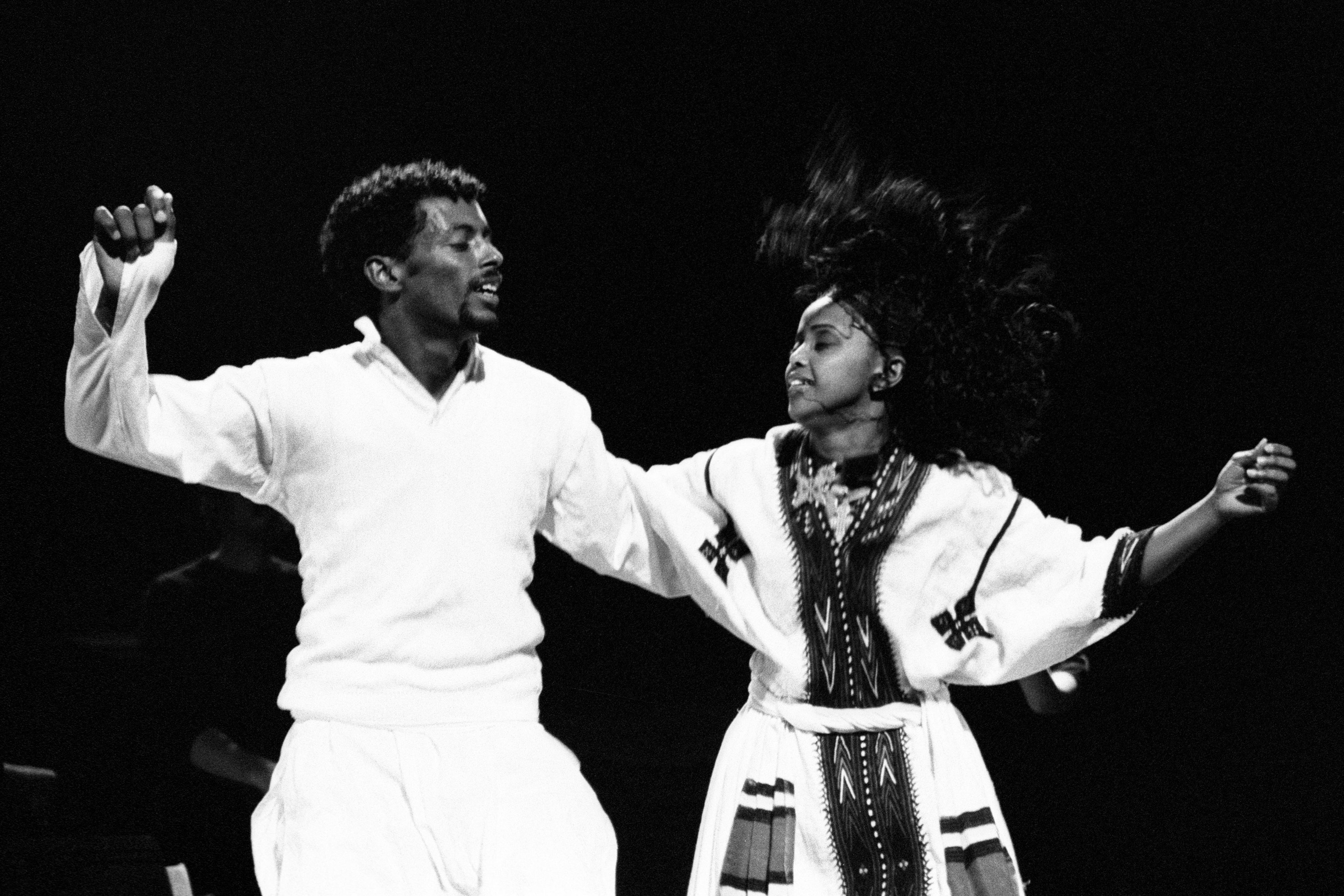 part of Retour d'Addis powered by Issuu